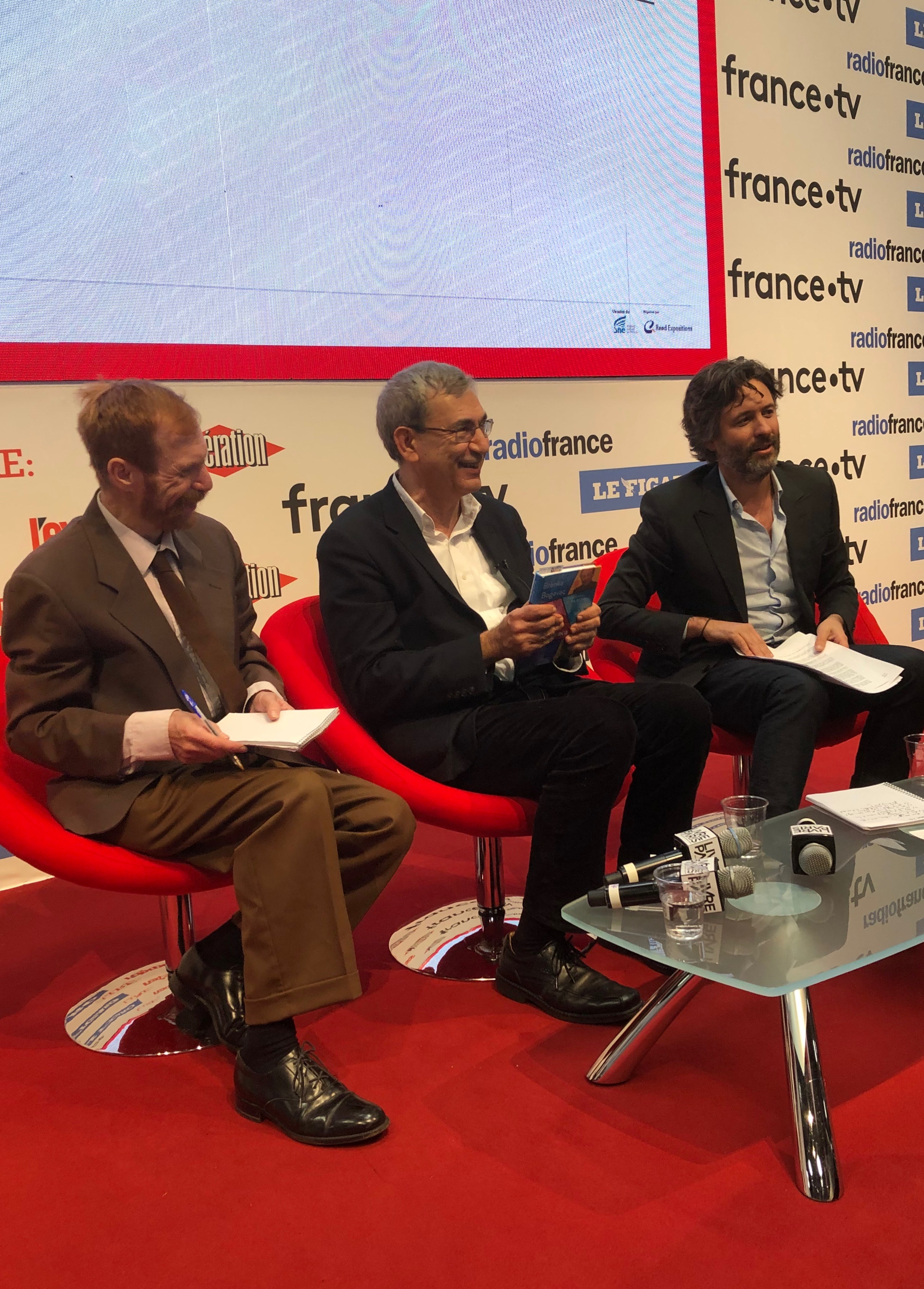 El escritor turco Orhan Pamuk en el Salón del Libro de París.